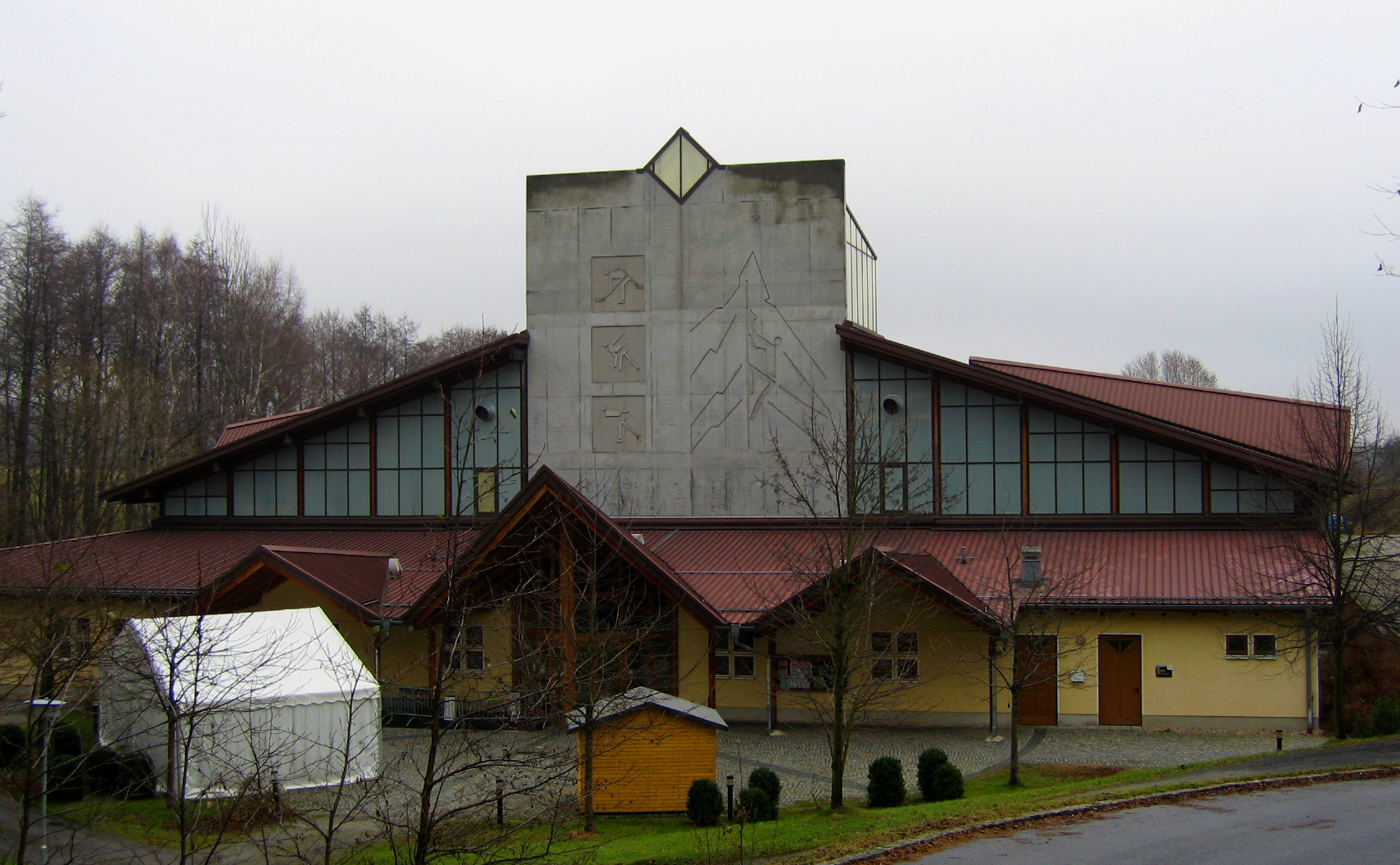 Sparkassen Arena in Jonsdorf